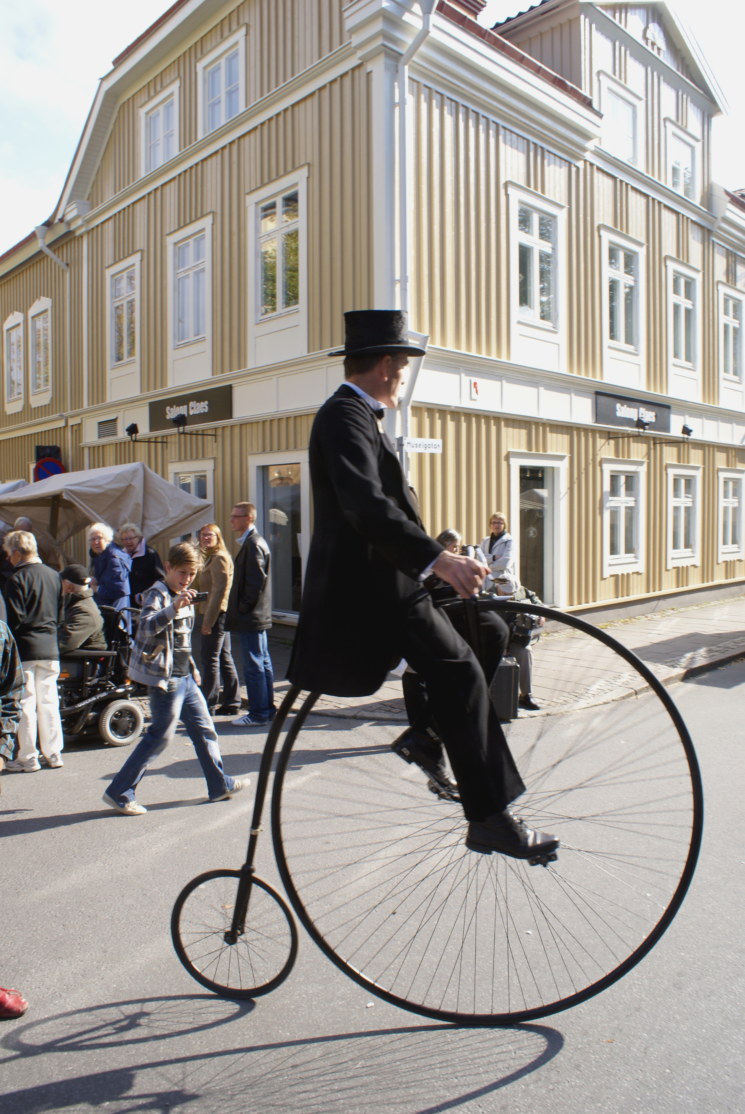 Man on Penny-farthing in Jönköping, Sweden.